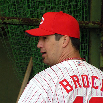 Chris Brock, pitcher of the Hiroshima Toyo Carp, at Nichinan Tempuku Baseball Stadium.